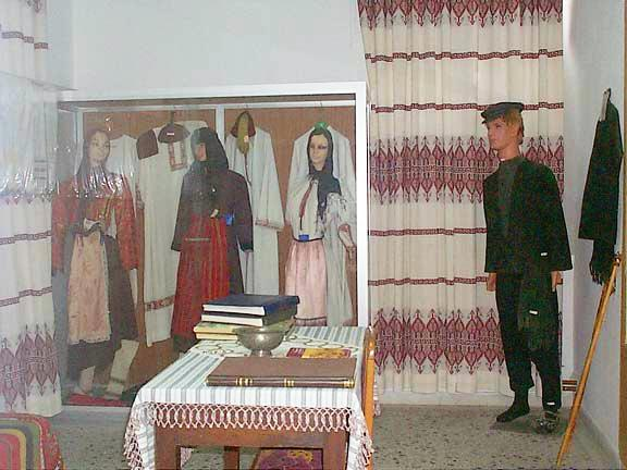 Traditional Costumes, image from the Folklore Museum, Petrokerassa, Central Macedonia, Greece